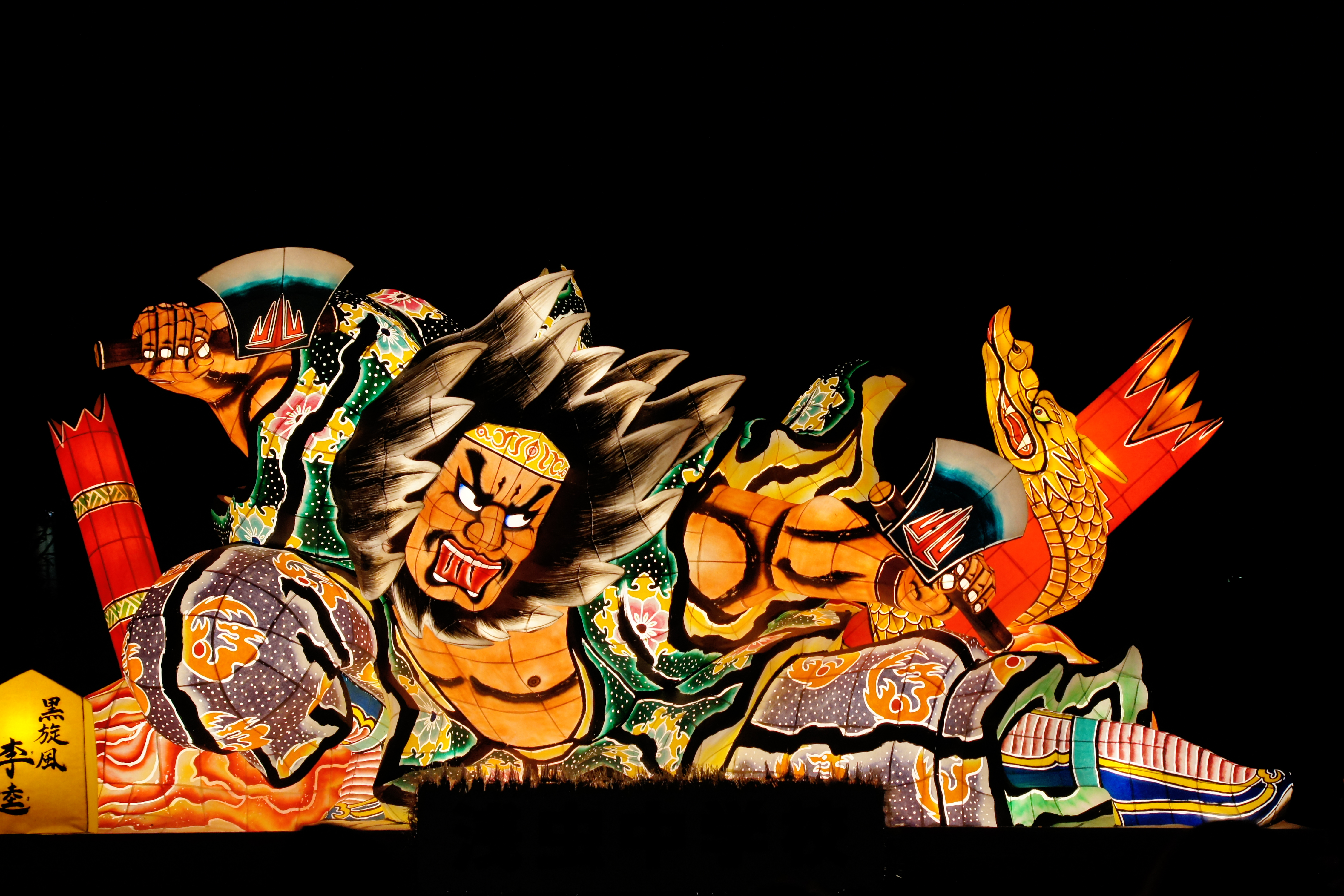 Asamushi Onsen Nebuta Festival at Asamushi Onsen in Aomori, Aomori prefecture, Japan